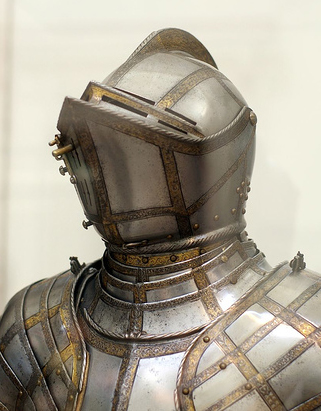 The tilting helmet of Sir James Scudamore